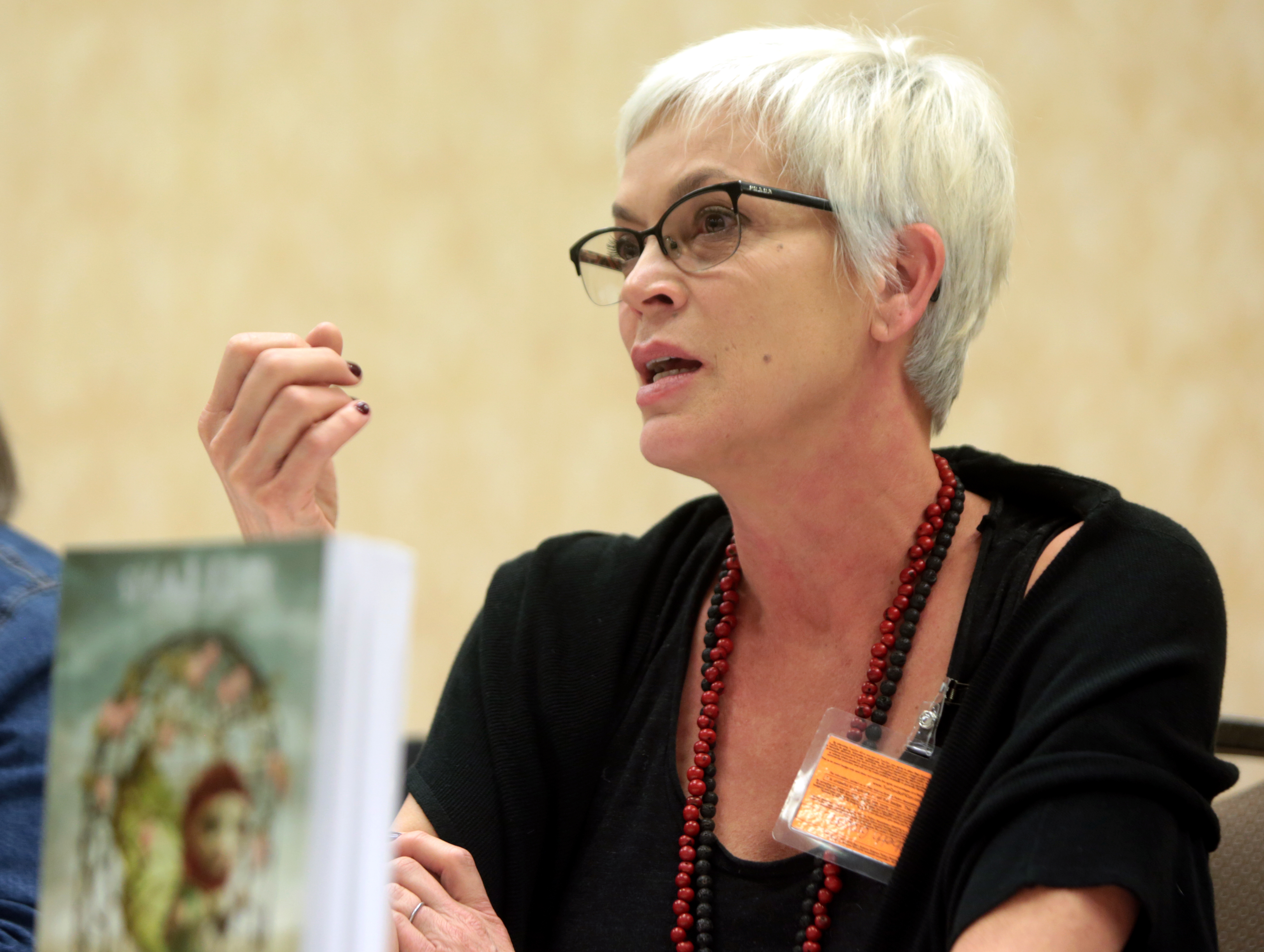 Elizabeth Gracen at an event in Tucson, Arizona.